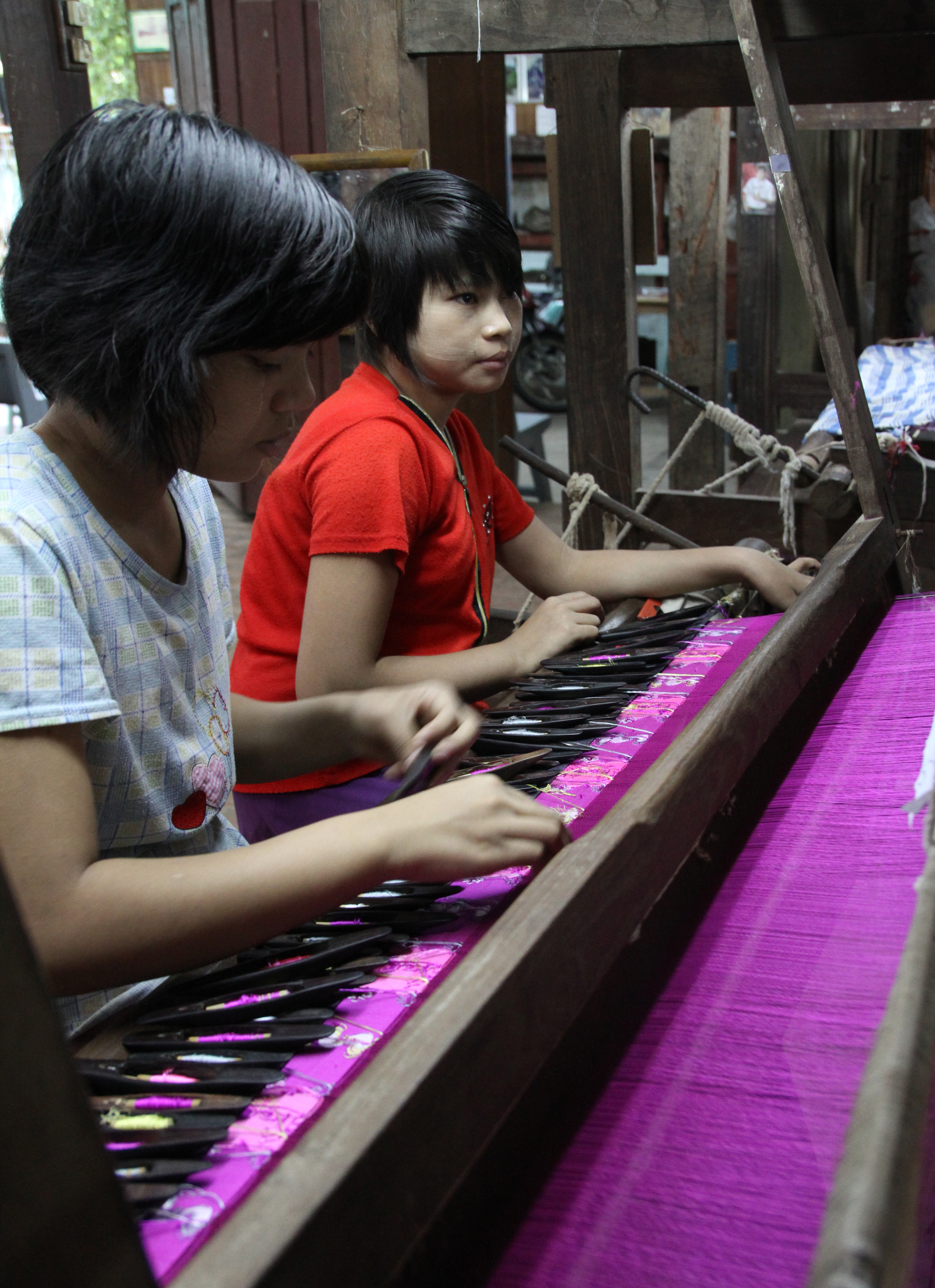 Silk weaving in Amarapura.